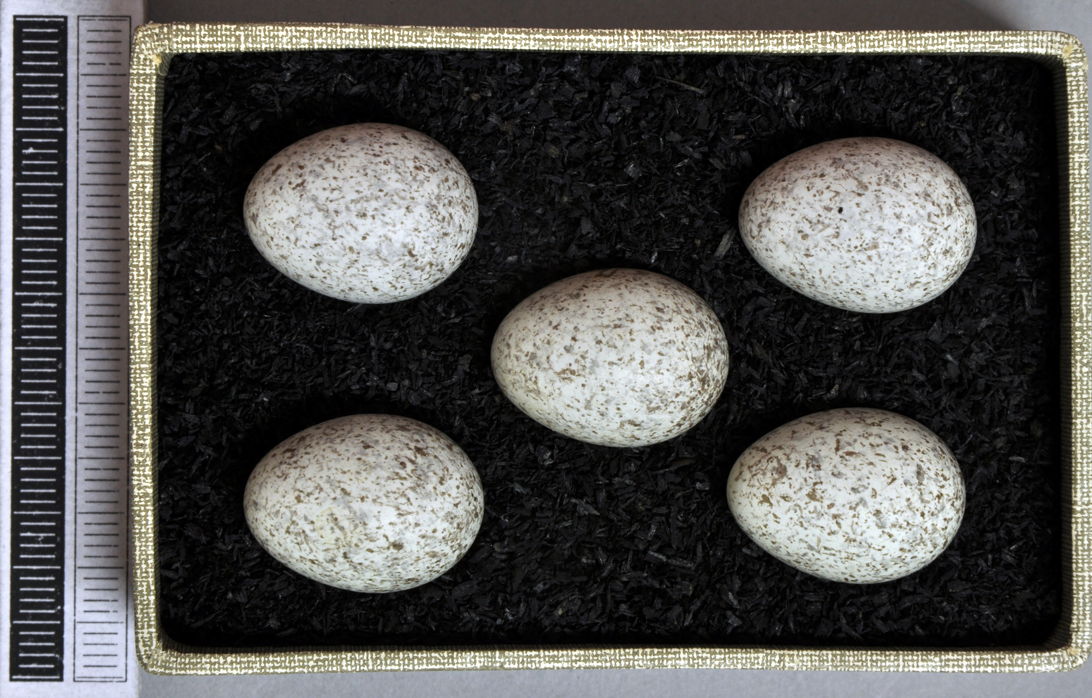 White wagtail Motacilla alba , egg, Coll. Museum Wiesbaden